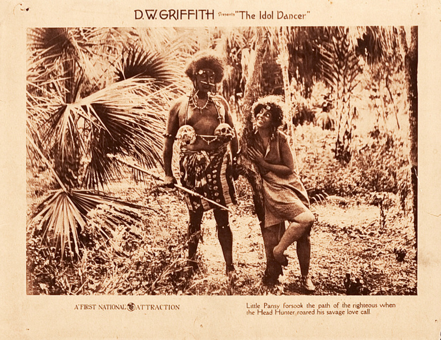 Lobby card for the American drama film The Idol Dancer (1920) with Walter James and Florence Short.